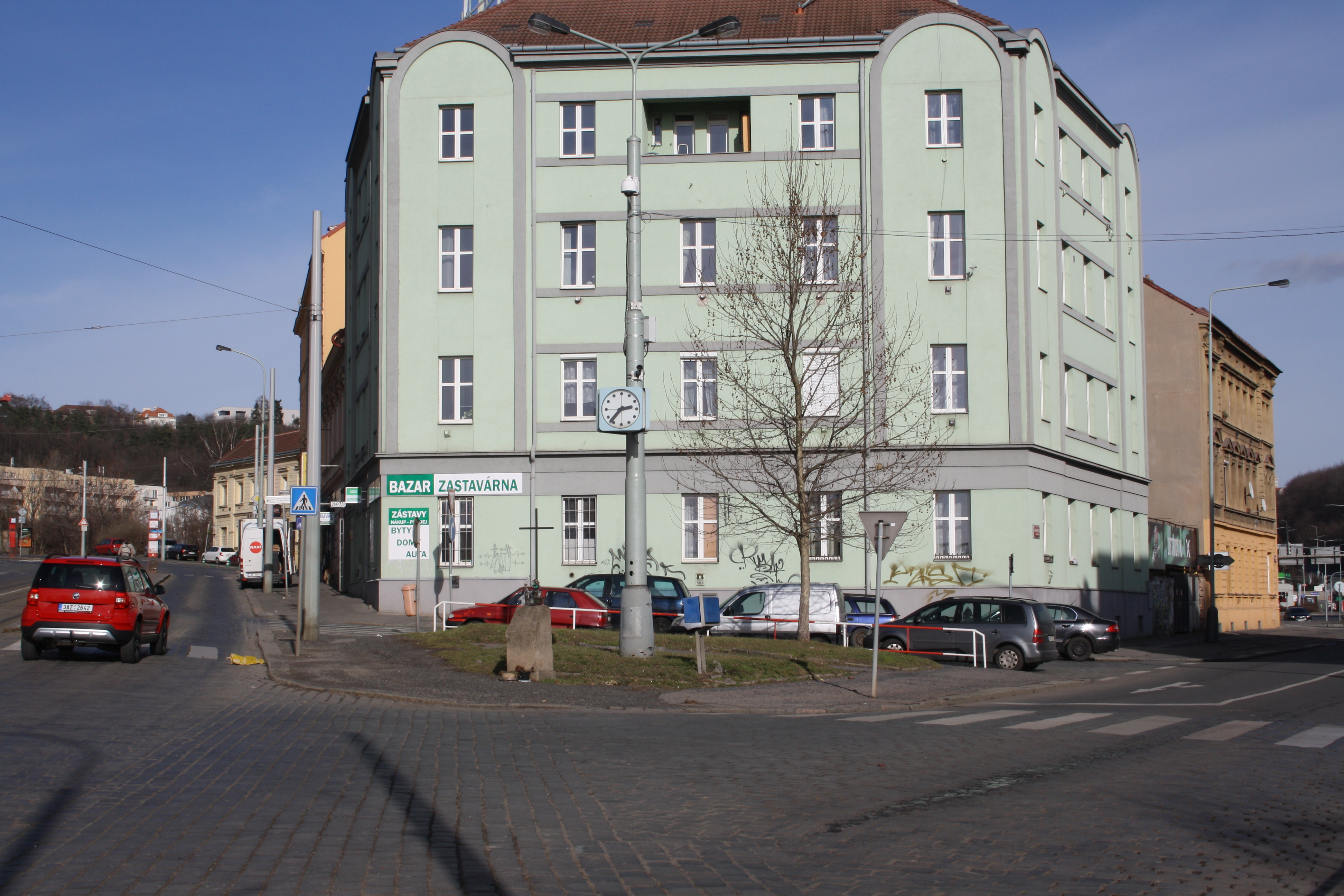 U Kříže (crossroads Zenklova Prosecká Kandertova), Libeň, Praha 8, Czech Republic